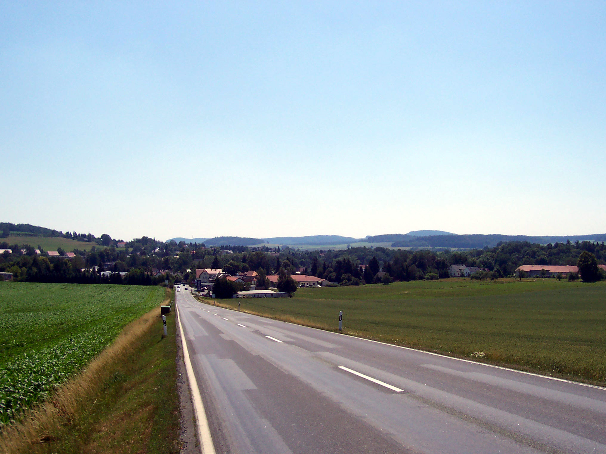 View over the German federal highway B 96 to the south-east towards Oppach, Saxony.